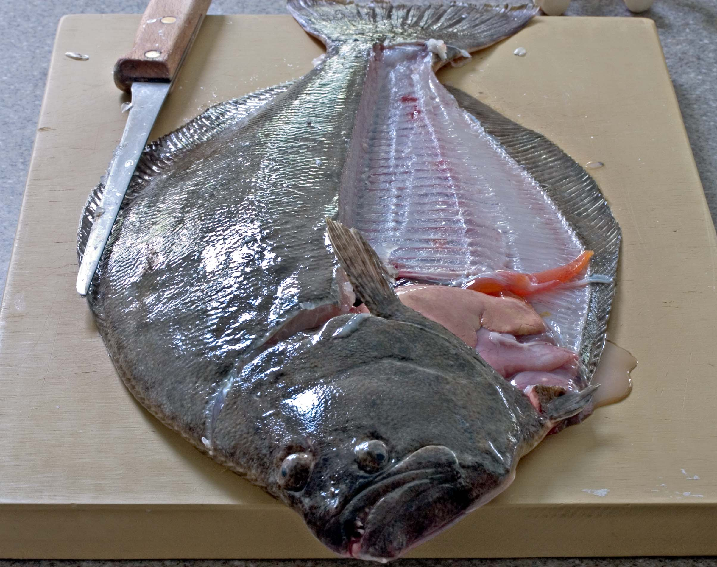 Cleaning fluke